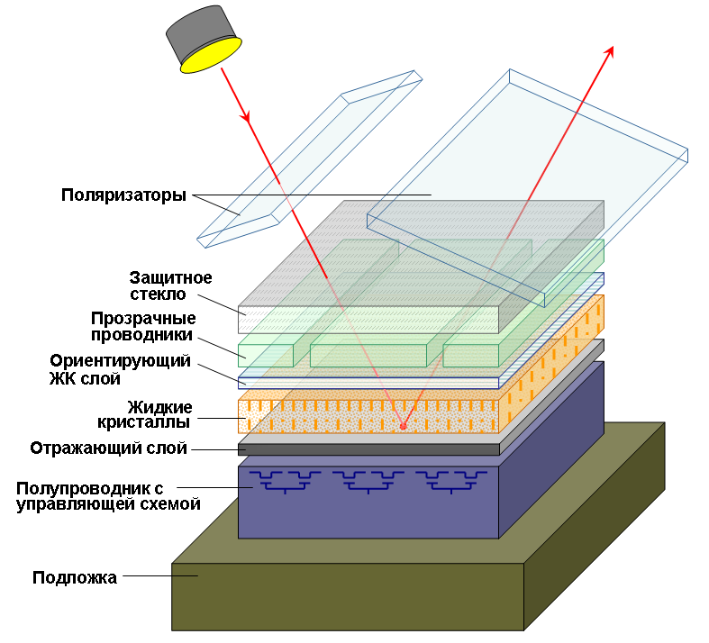 Scheme of LCoS (Liquid crystal on silicon ) Microdevice